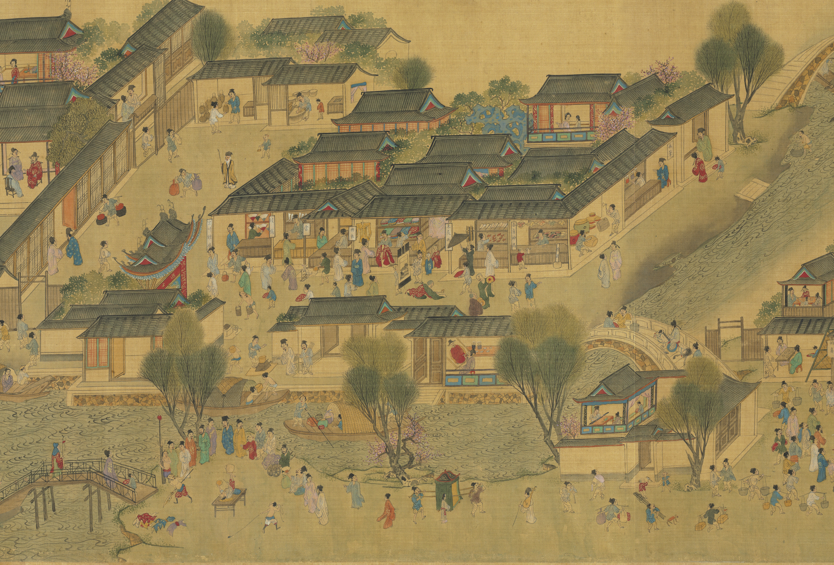 This image file depicts a section from the so-called Suzhou Imitation of Along the River During the Qingming Festival.